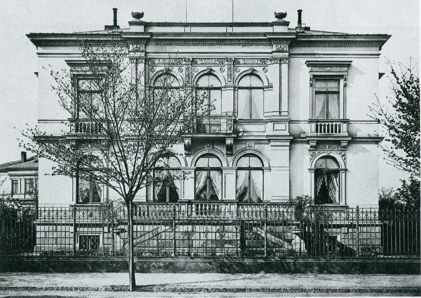 Dresden Villa Pilz Parkstraße 4 um 1878